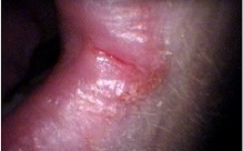 Zoomed, Cropped and rm lable from original image: Photographic Comparison of a Canker Sore, Herpes, Angular Cheilitis and Chapped Lips..jpg